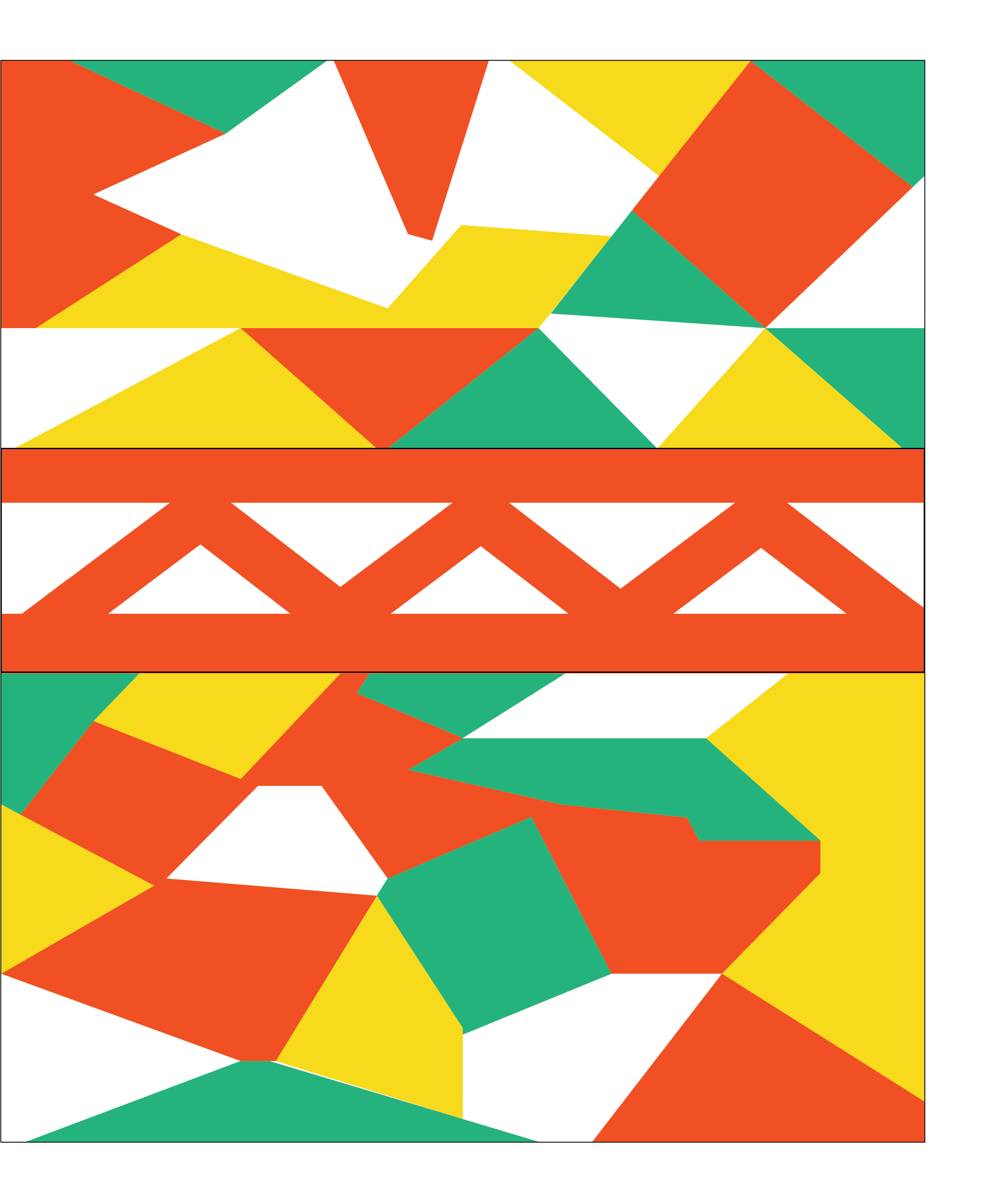 Based on David Nicolle "Armies of the Muslim Conquest" illustrations by Angus McBride. And Martin Hinds "The Banners and Battle Cries of the Arabs at Siffin" Al-Abhath XXIV